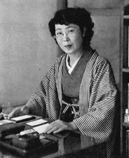 Akiko Hiroike